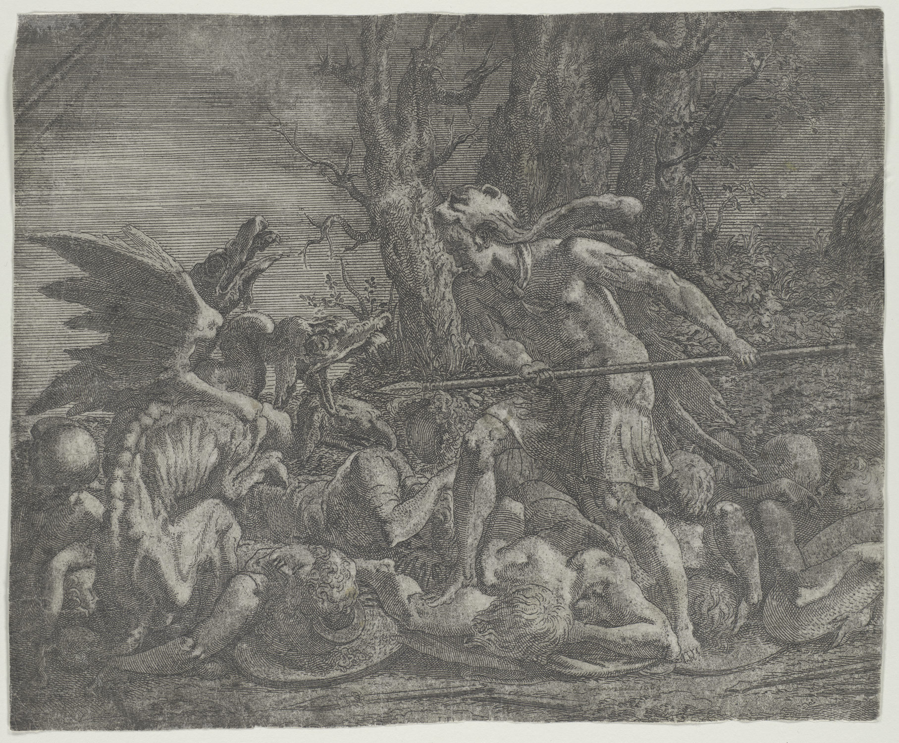 Metropolitan Museum of Art Working Title/Artist: Cadmus Fighting the Dragon Who Had Killed His Men Department: Drawings & Prints Culture/Period/Location: HB/TOA Date Code: 08 Working Date: 1540-56 Digital Photo #: DP102821